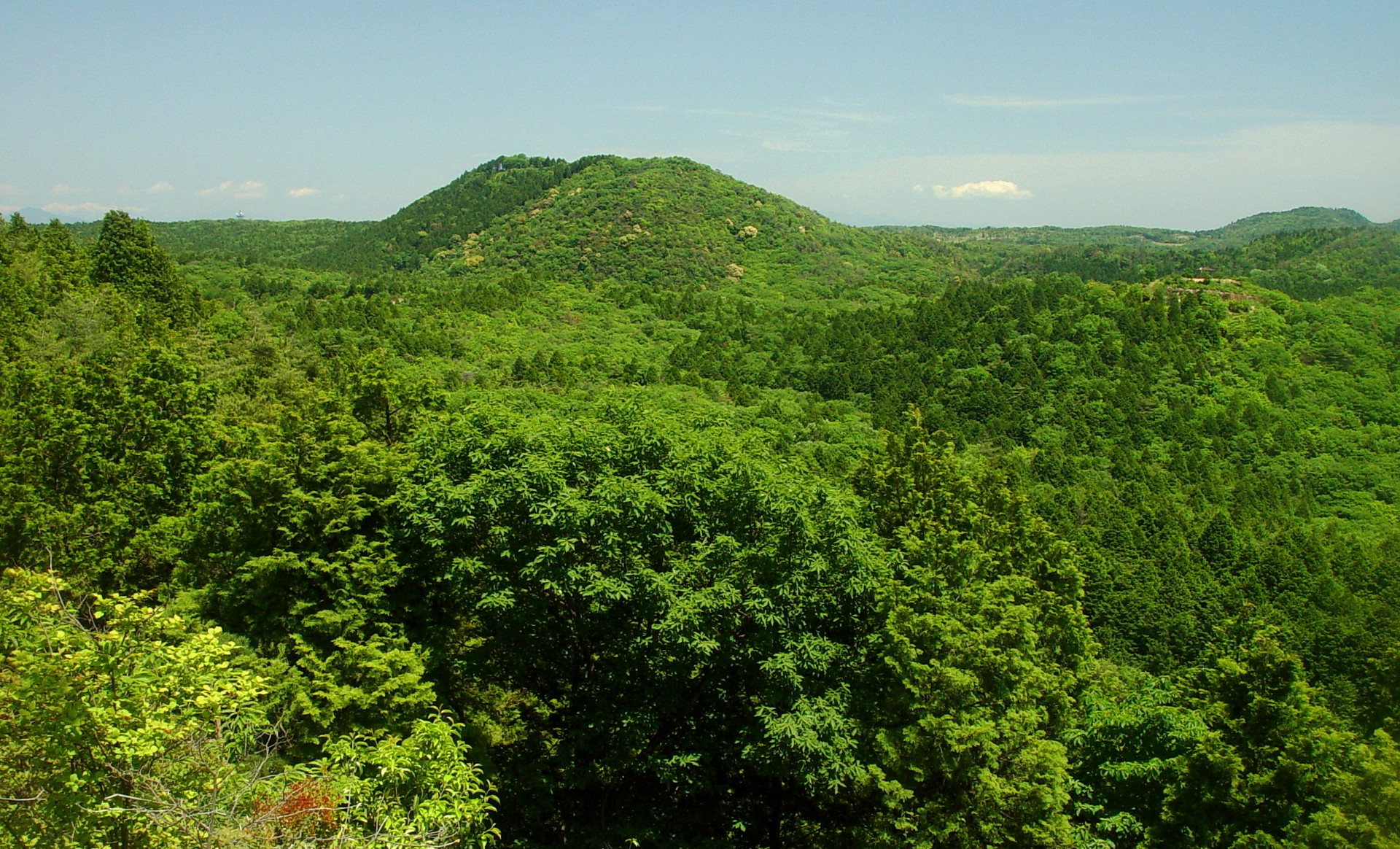 Mount Hasso seen from Mount Iwami in Inuyama, Aichi prefecture, Japan.